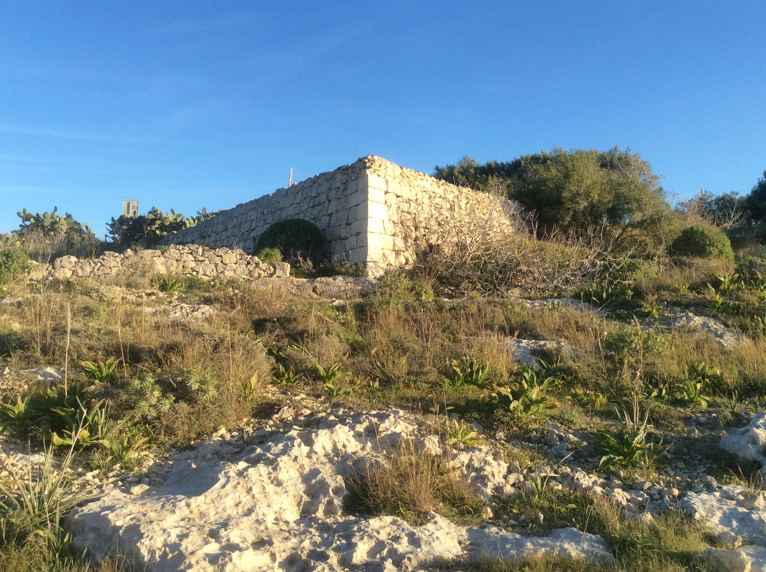 redan Naxxar 3